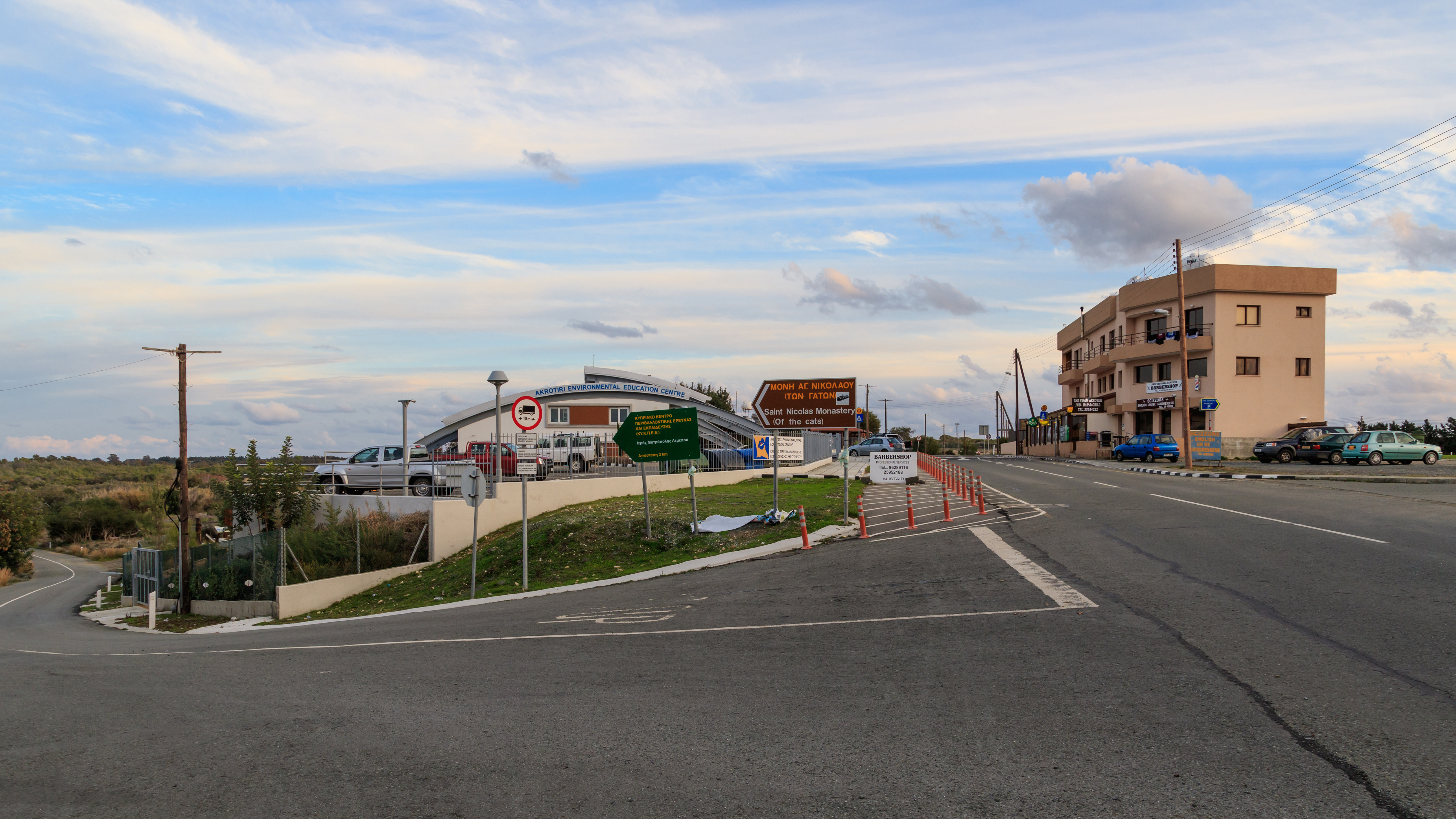 Streets crossing in Akrotiri near Limassol, Cyprus